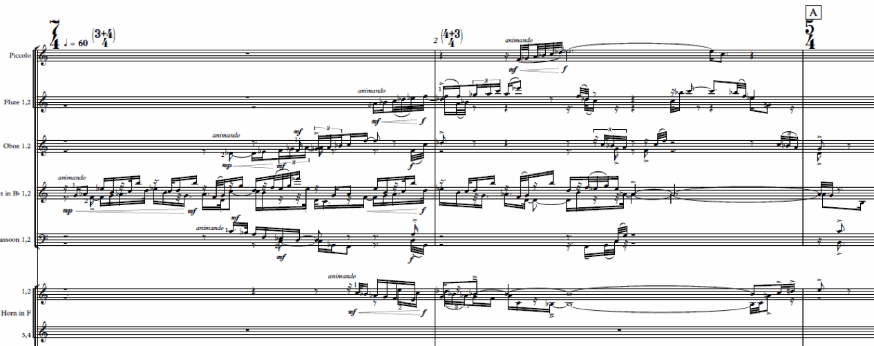 Excerpt from score of Svitlana Azarova's overture "Mover of the Earth, Stopper of the Sun"